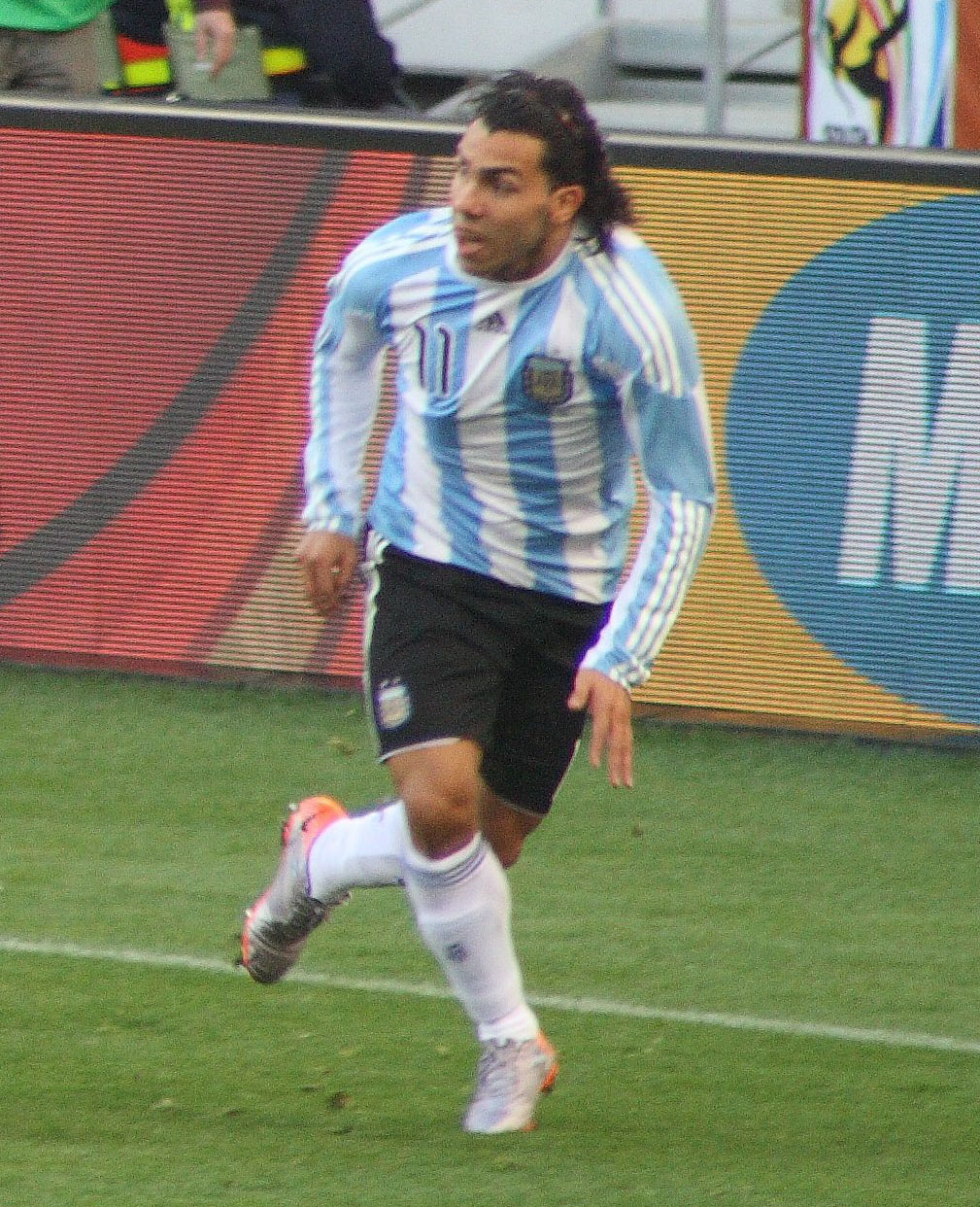 Carlos Tévez, Argentina vs Germany, 2010 FIFA World Cup, July 3, Cape Town (South Africa), Cape Town Stadium.